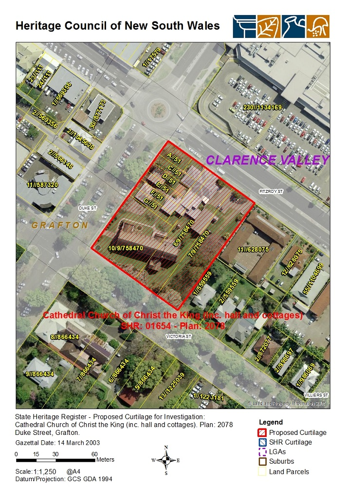 Christ Church Cathedral, Grafton: SHR Plan 2078